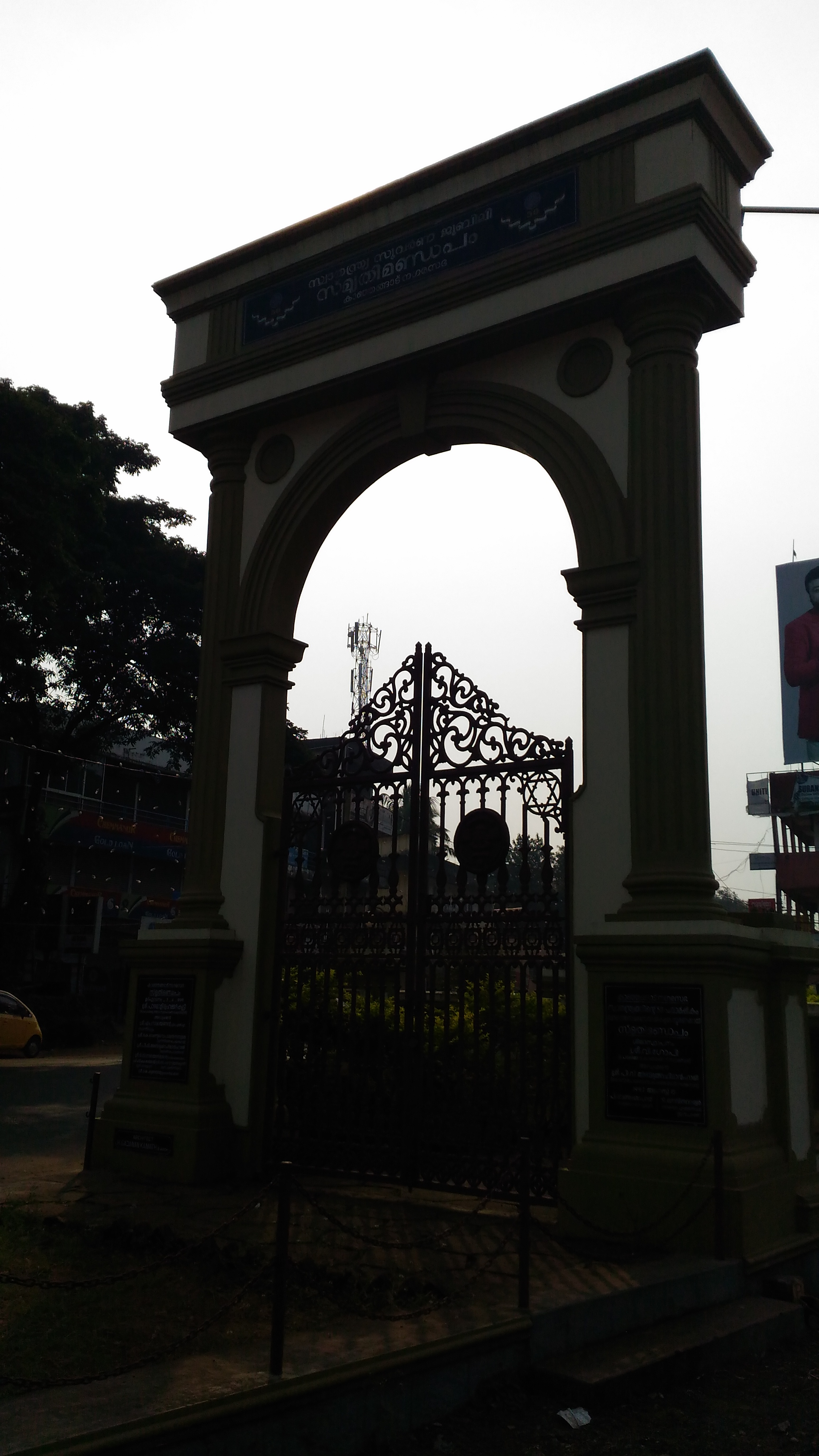 Smrithi Mantapam Erected by Kanhangad Municipality - In remembrance of Freedom Fighters on the 50th Independance day - 15th August 1997